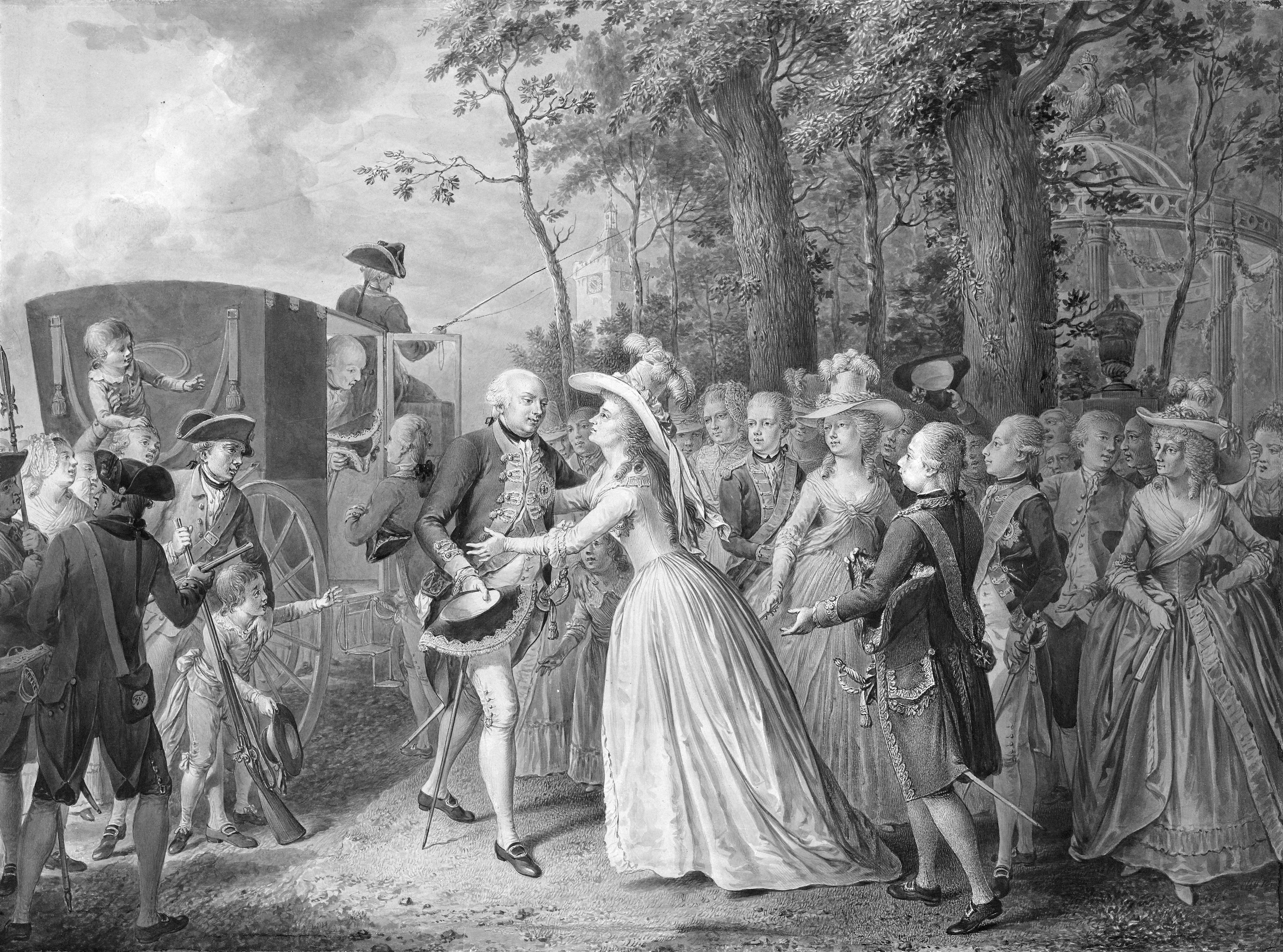 Meeting of Princess Wilhelmina with her brother King Frederick III of Prussia in Kleve, 1788, Willem Joseph Laquy, 1788 - 1798